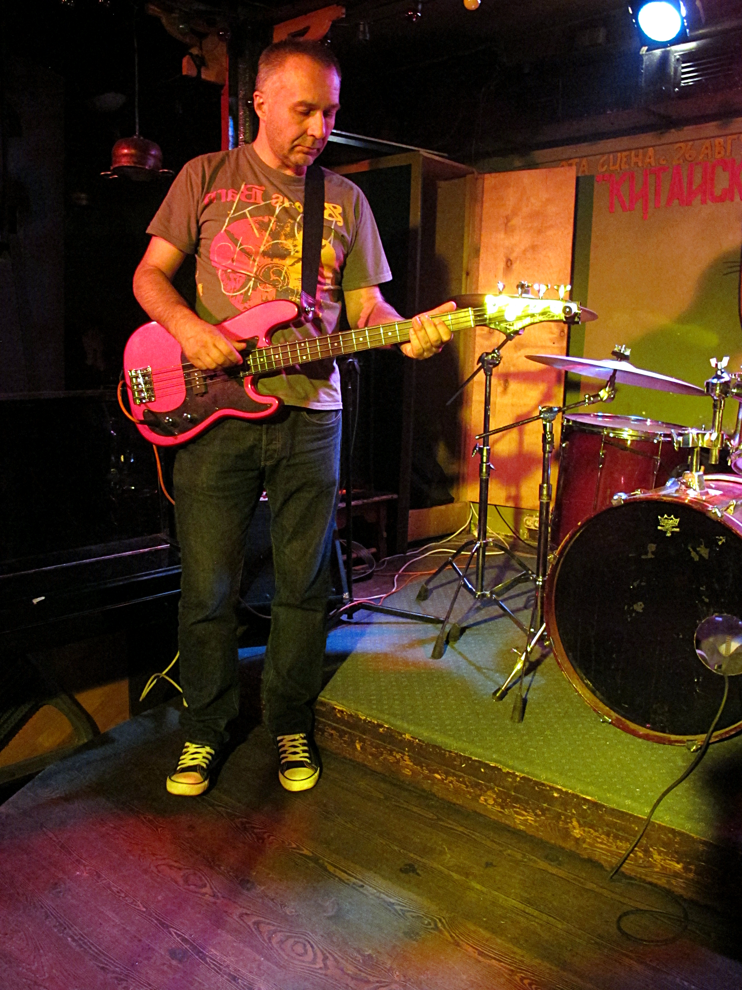 Andrey Suchilin Birthday, Moscow, 2013-07-28